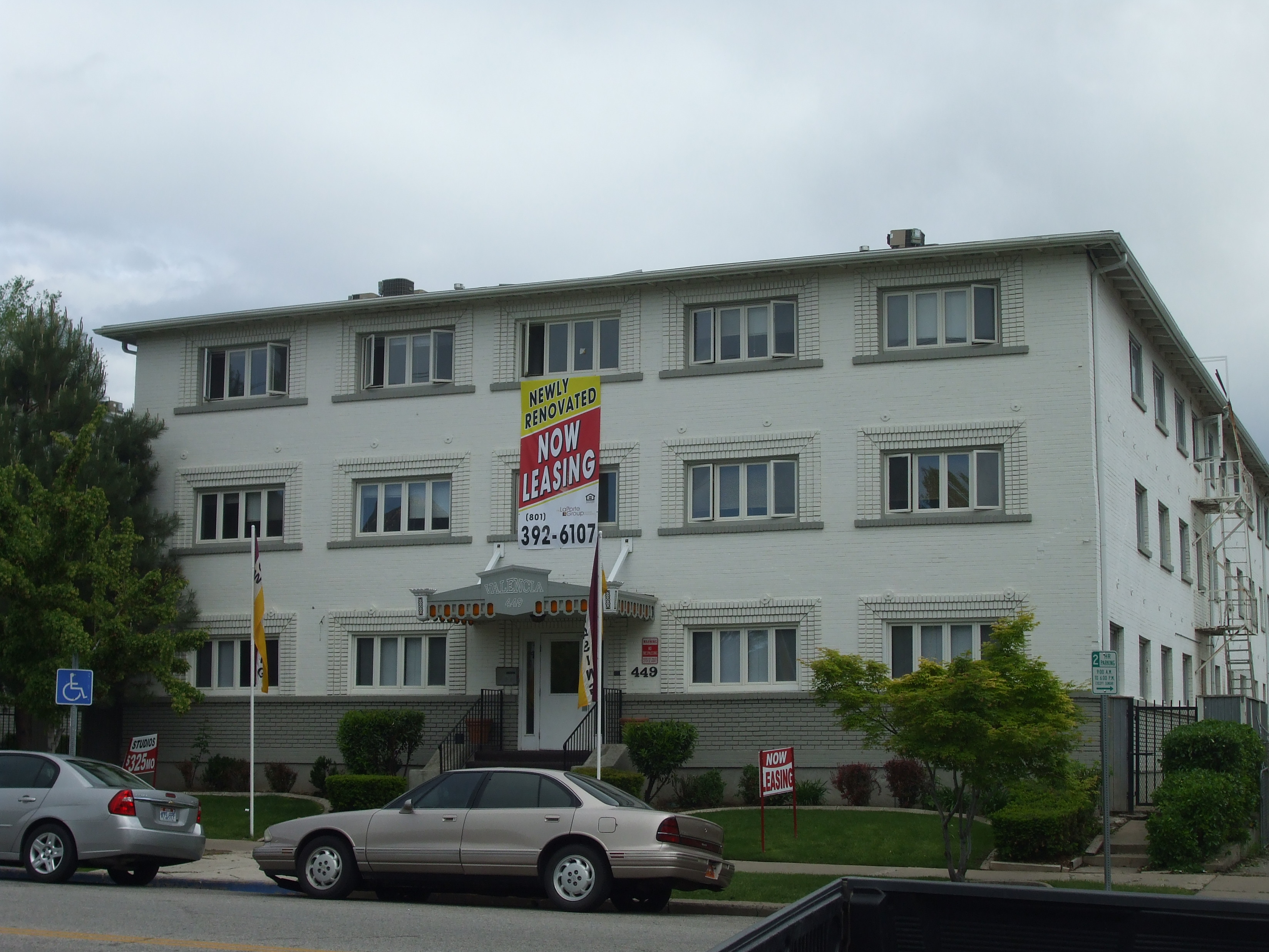 The Avelan Apartments, a historic building in Ogden, Utah, United States.